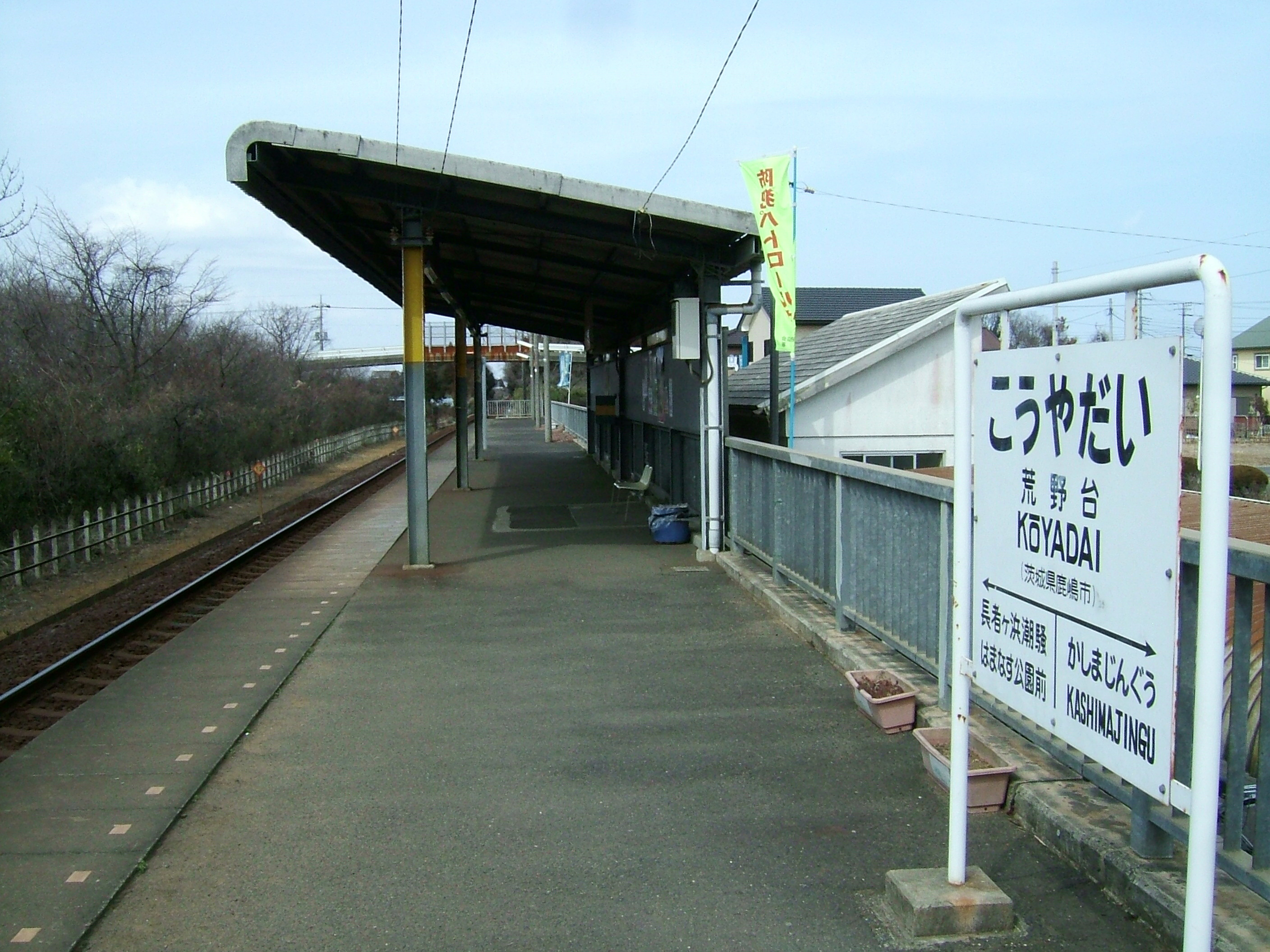 Koyadai Station platform (Kashima Seaside Railway Oarai-Kashima Line)